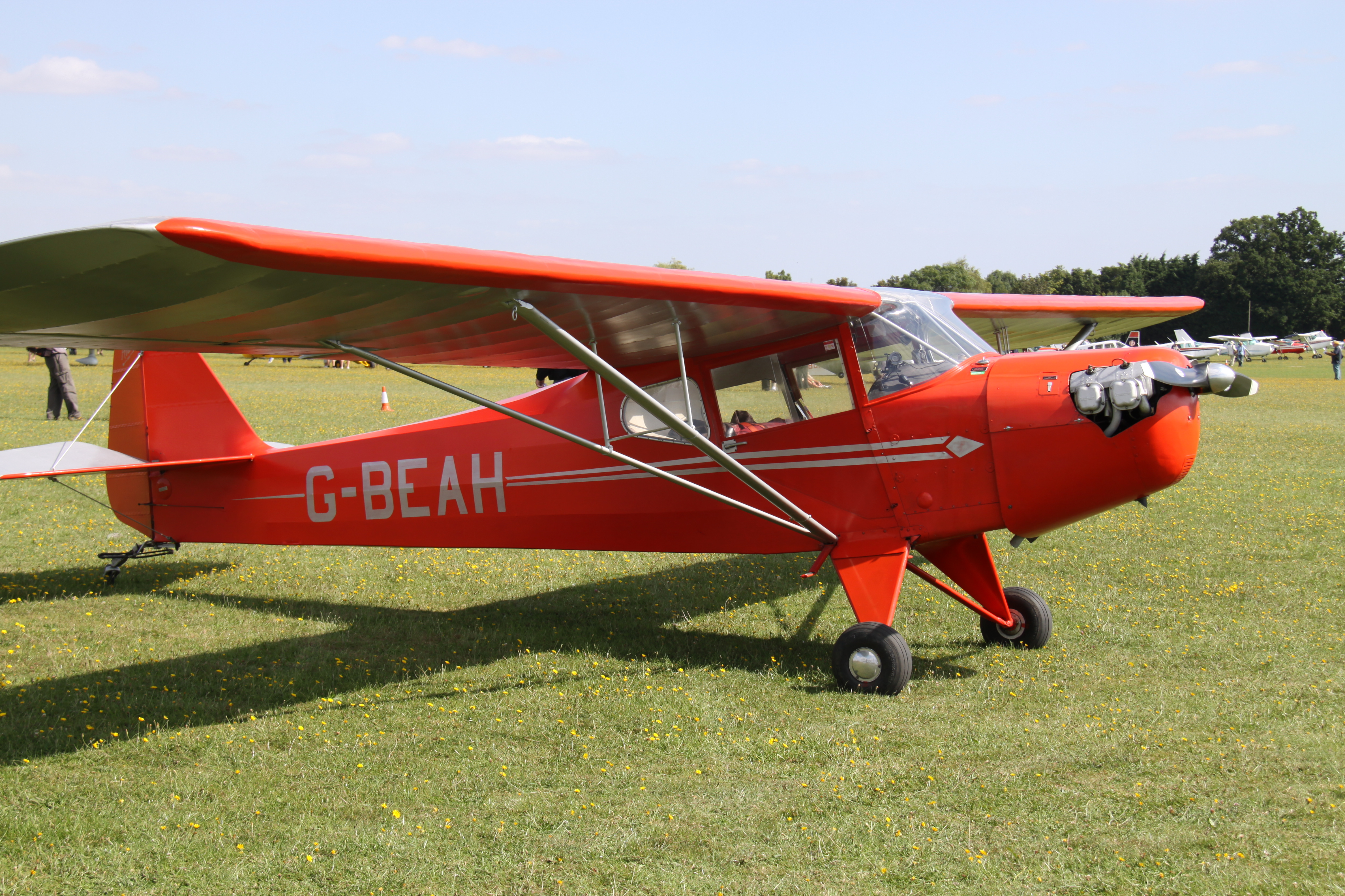 At Sywell Airfield